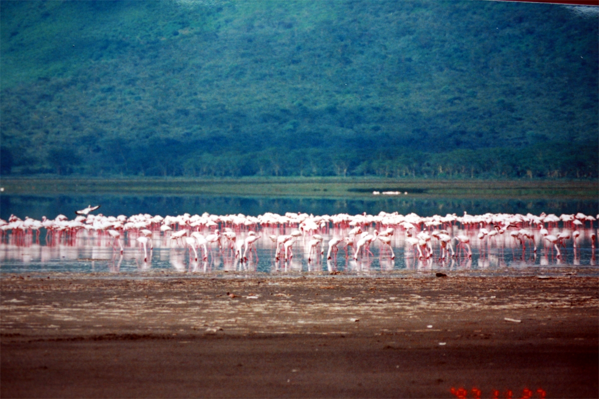 Lesser Flamingos, in Lake Nakuru], Kenya. The image is a digital picture of my old print.